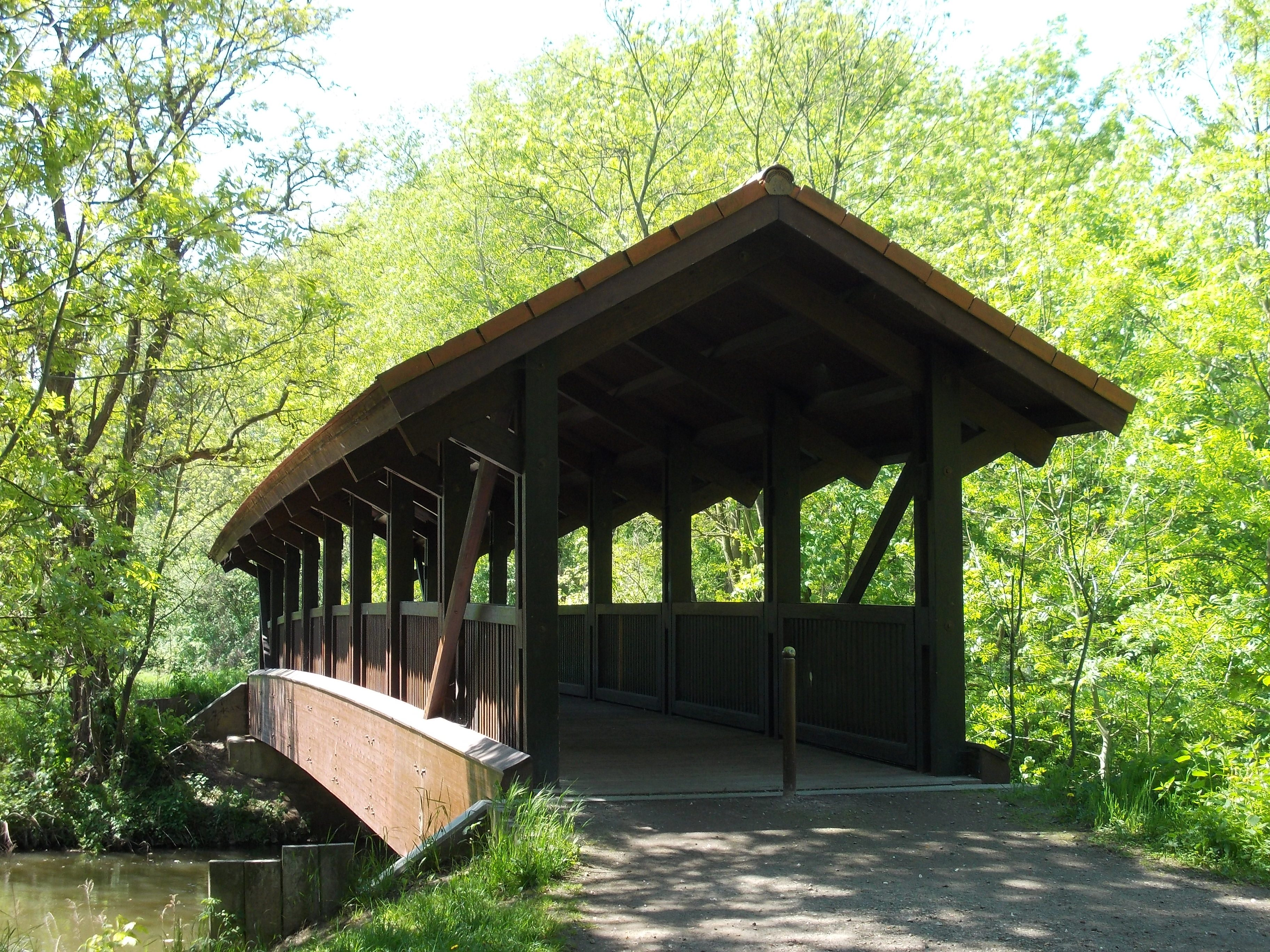 Bridge over the Weisse Elster river at Altscherbitz (Schkeuditz, Nordsachsen district, Saxony)